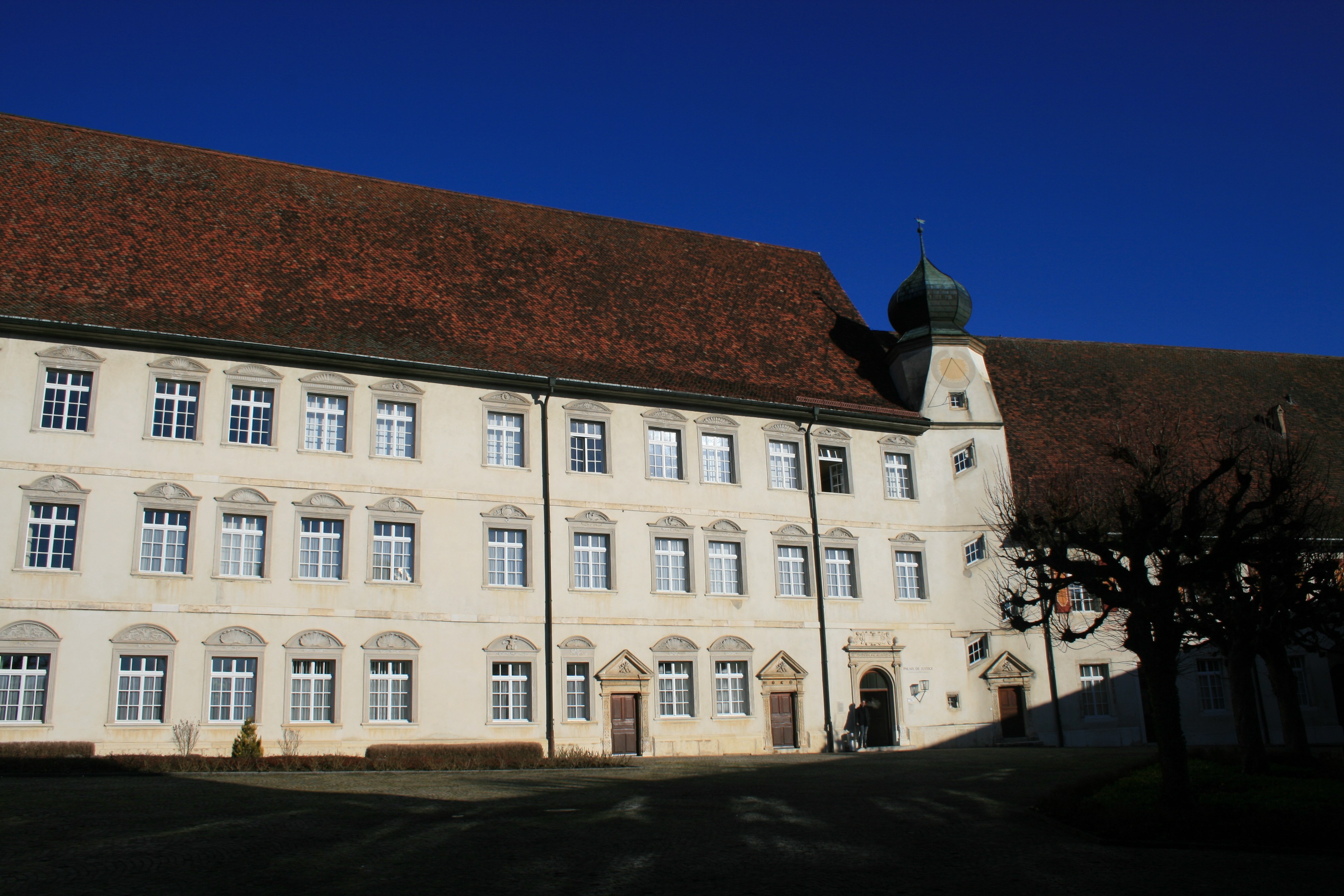 Castle of Porrentruy